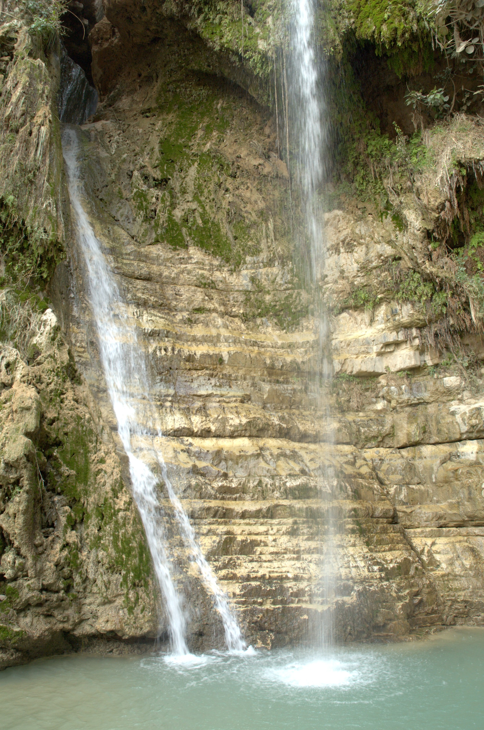 Ein Gedi nature reserve